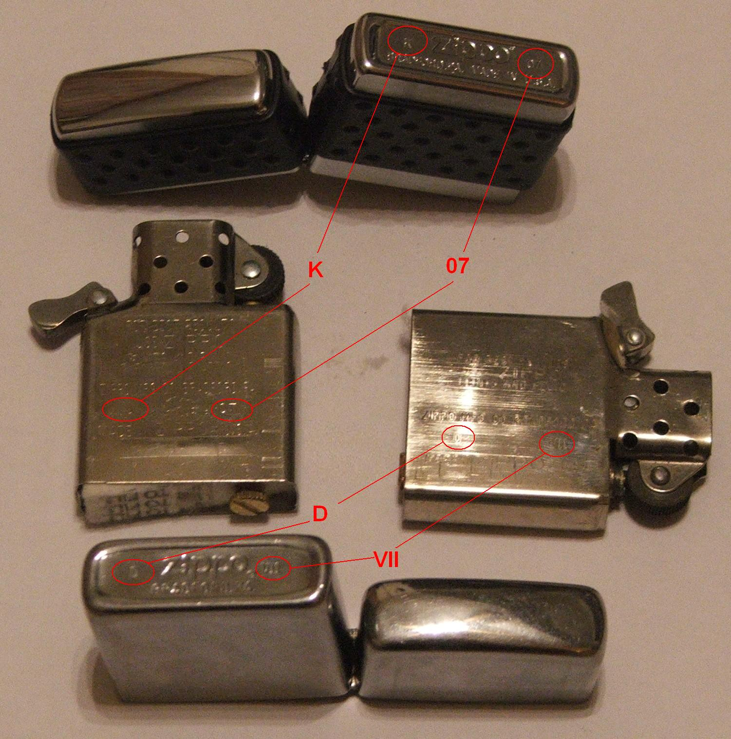 A way to find out the month when a Zippo lighter was made: A = january, B = february, ..., L = december; II = 1986, III = 1987, ..., XVI = 2000, ...